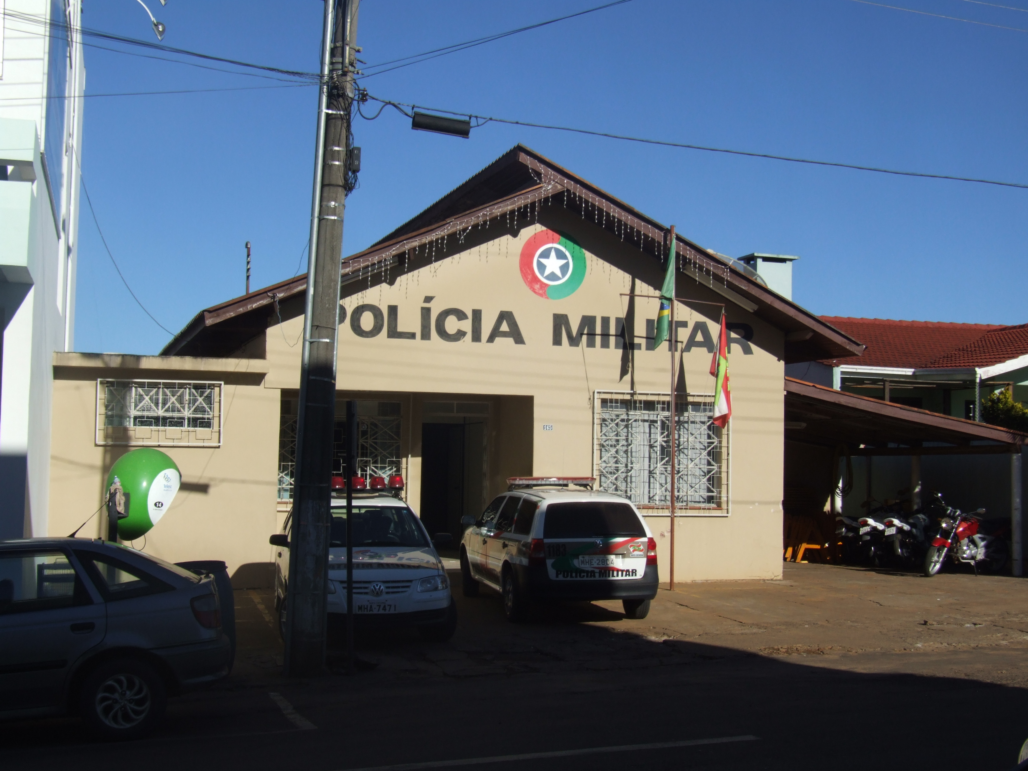 Headquarters of Military Police of Santa Catarina, in Campos Novos, Brazil